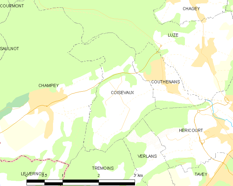 Map of French municipality